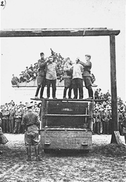 SD officers prepare to hang Mosche Kogan (left) and Wolf Kieper on the market square in Zhitomir. Mosche Kogan and Wolf Kieper were arrested by the SD at the beginning of August 1941 for being members of the Soviet regional court. At the same time, the local German army commander ordered the arrest of more than 400 Jewish men. They were held under SS guard until a gallows could be erected in the market square of Zhitomir. On August 7 members of the propaganda company attached to the 6th Army issued a public announcement that Kieper and Kogan would be hanged in the market square. The 400 Jews arrested by the army were made to watch the hanging and afterwards were taken to the Pferdefriedhof (horse cemetery) outside Zhitomir where they were shot by the SD and German troops.